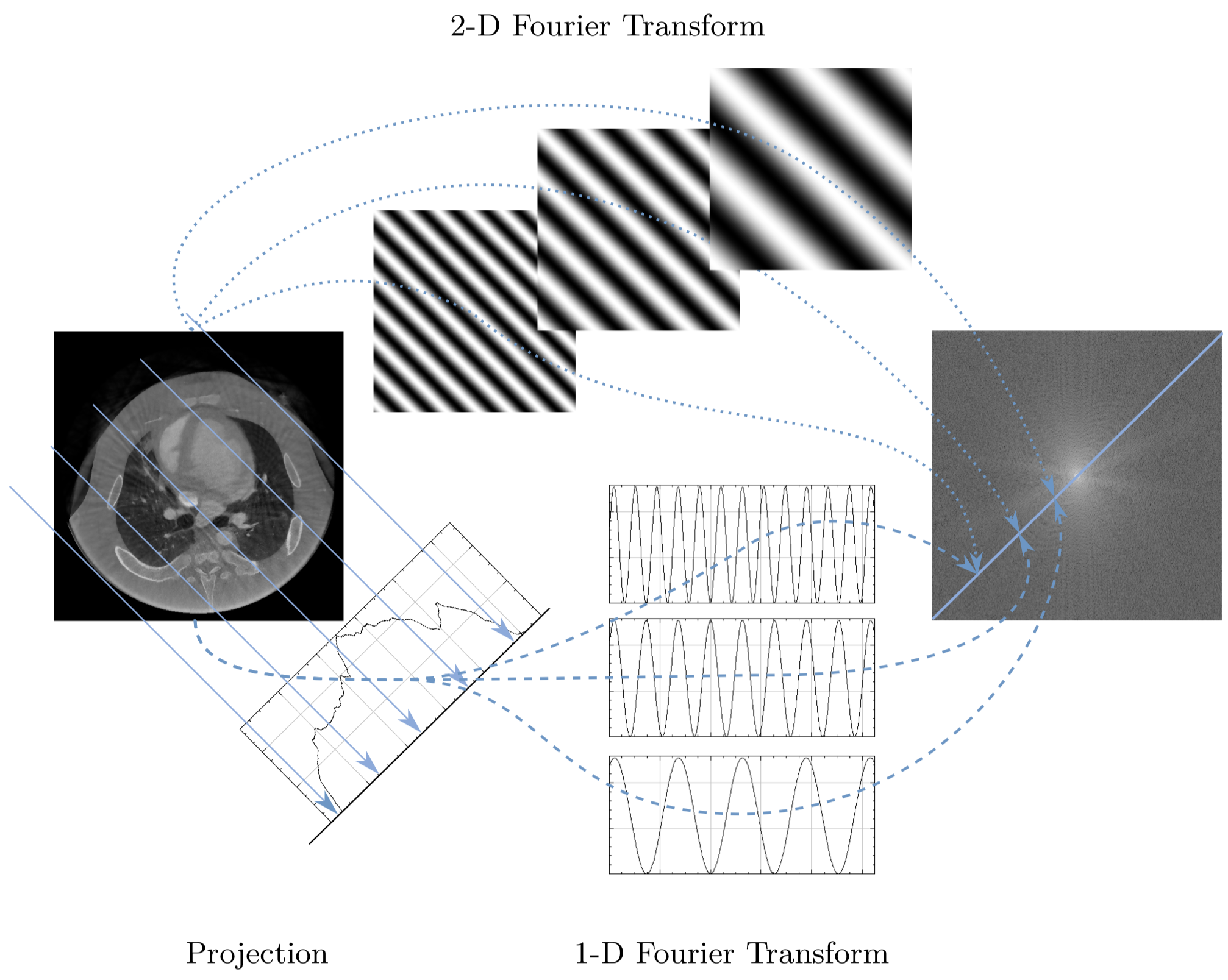 This image is taken from the text book "Maier, Andreas, et al., eds. Medical Imaging Systems: An Introductory Guide. Vol. 11111. Springer, 2018.". The whole book is published under CC 4.0 BY license and can be freely used. Please reference the book, if you intend to use this figure in your own work.